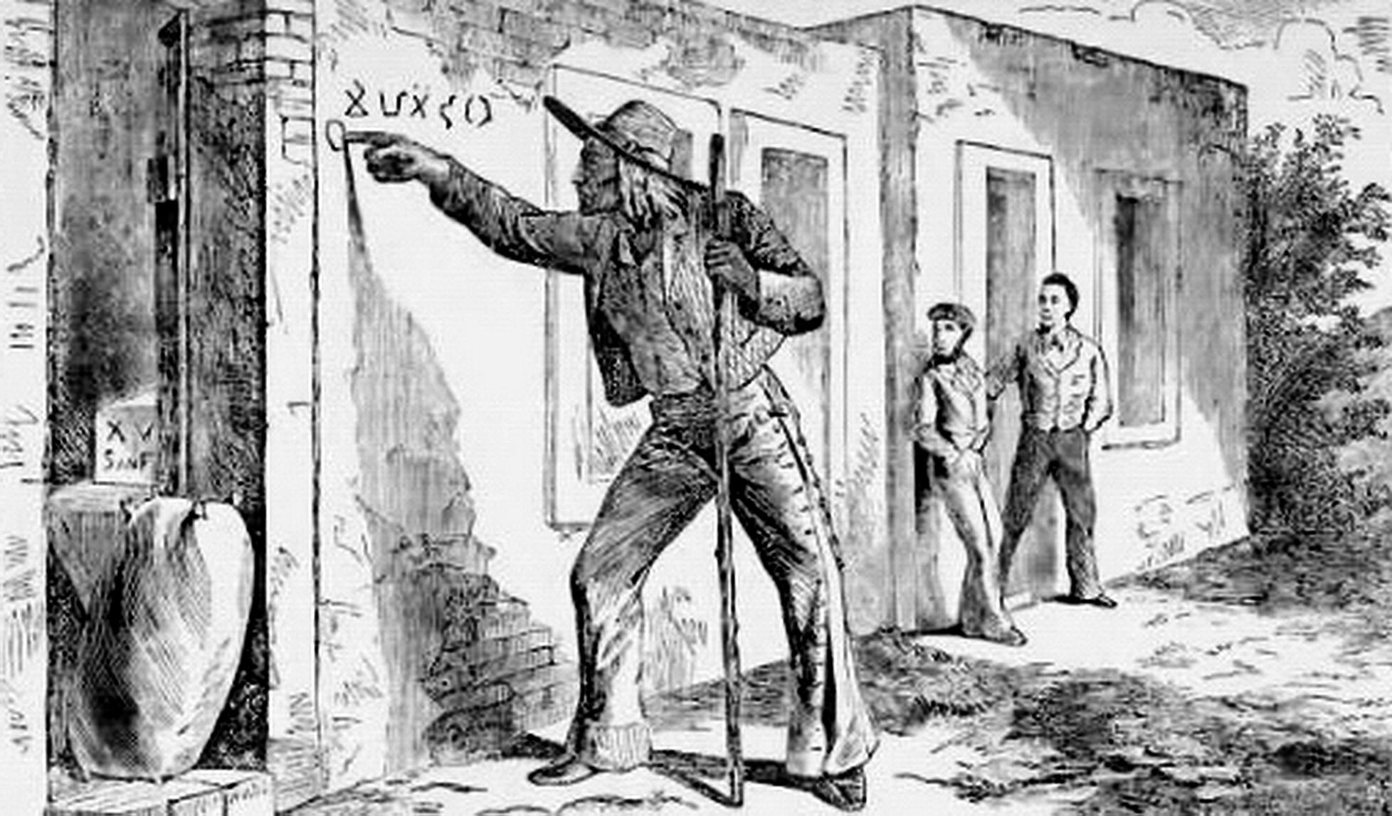 A La California (1873): Description and travel; Social life and customs written by Colonel Albert S. Evans. The number is the page number in the book. The words are the captions with each image. Follow the link to the full book.